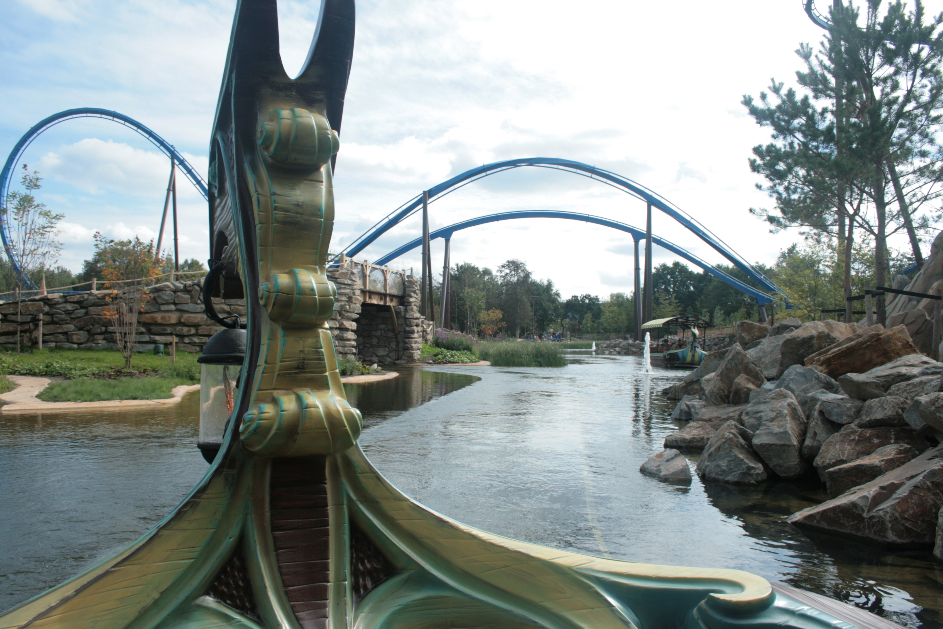 Theme area Avalon at Amusementspark Toverland.